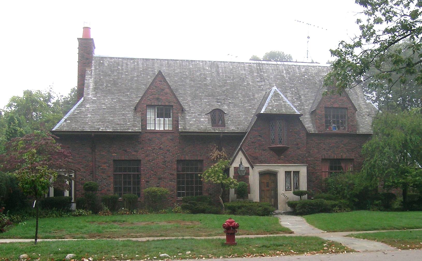 House in the Palmer Woods Historic District — in Midtown Detroit, Michigan. A Historic district contributing property.